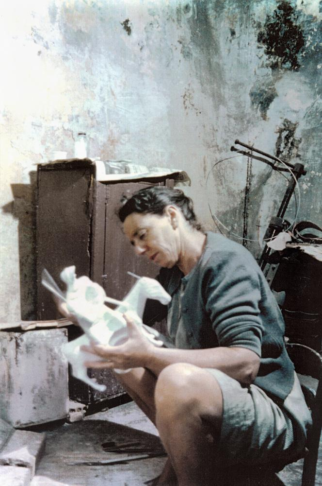 Kath Shillam in Athens working on plaster for Donkey Woman II, in the wash house at Plaka, 1961